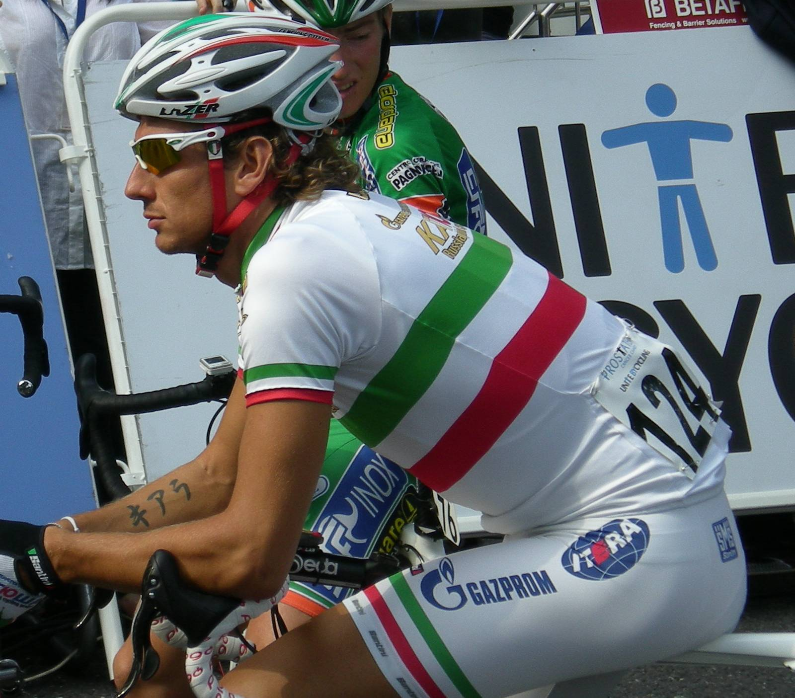 Filippo Pozzato at 2009 Tour of Britain